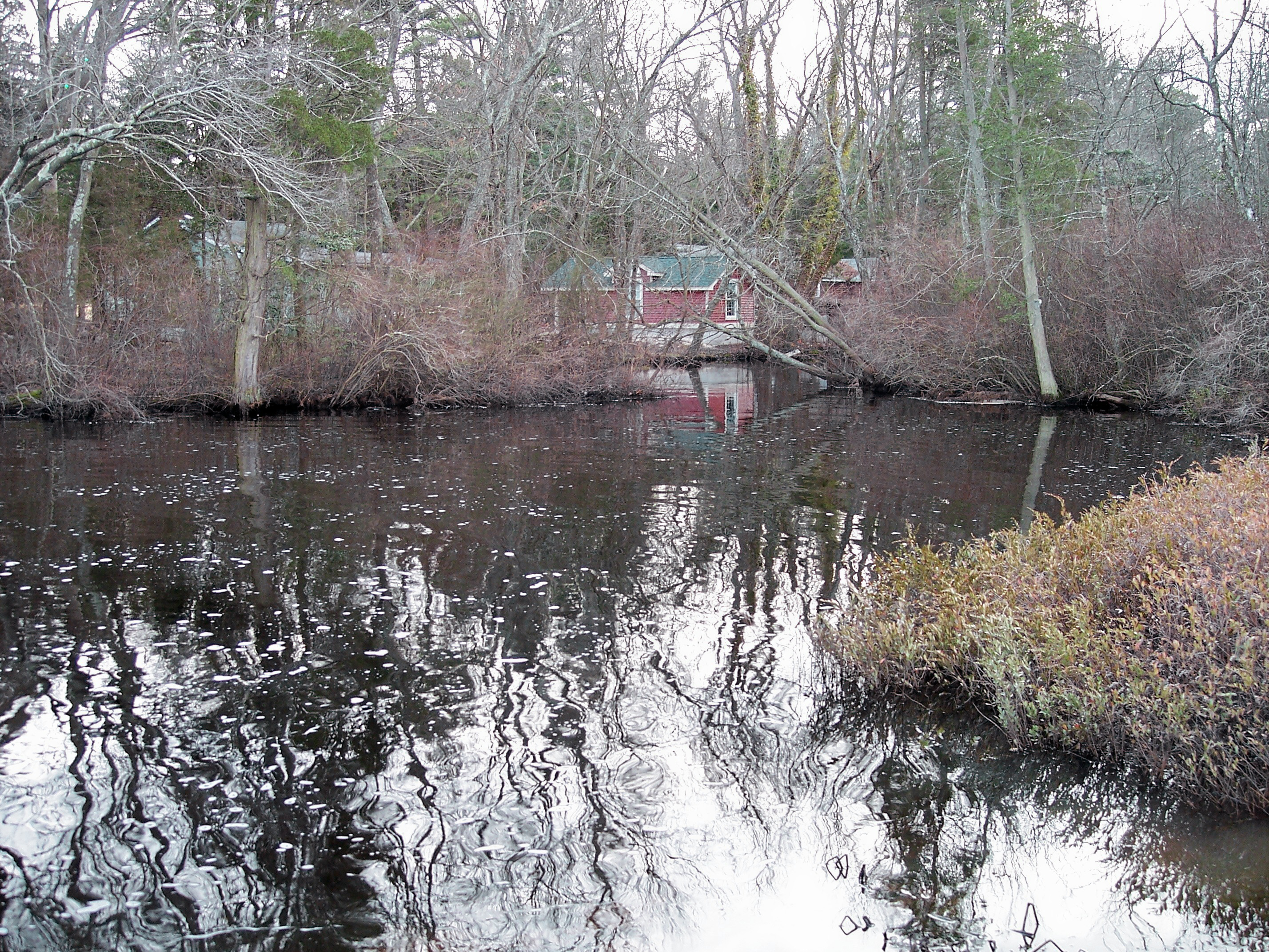 The Manumuskin River as viewed downstream from New Jersey Route 49 in Maurice River Township, New Jersey.